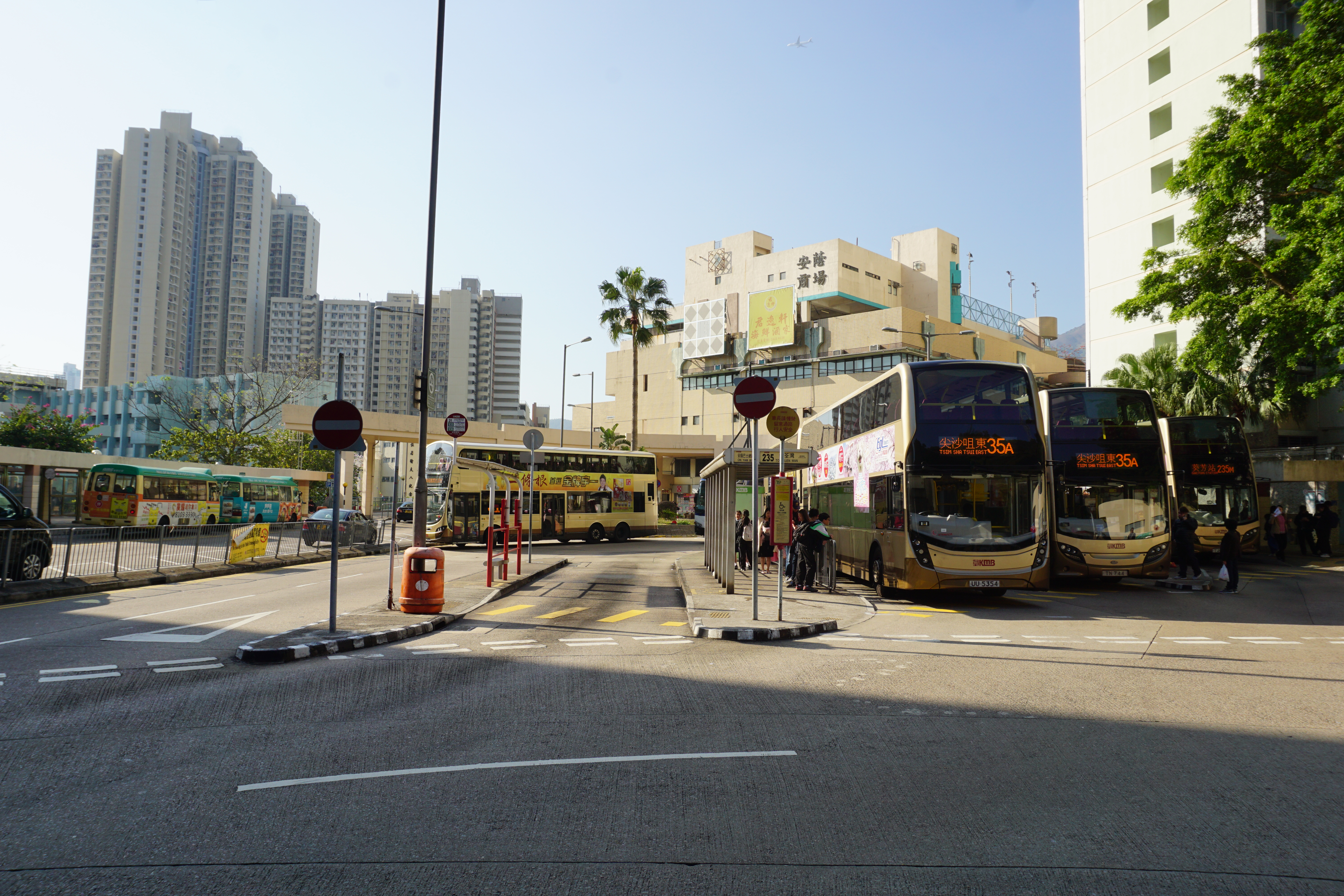 On Yam Bus Terminus in Shek Yam, Hong Kong.